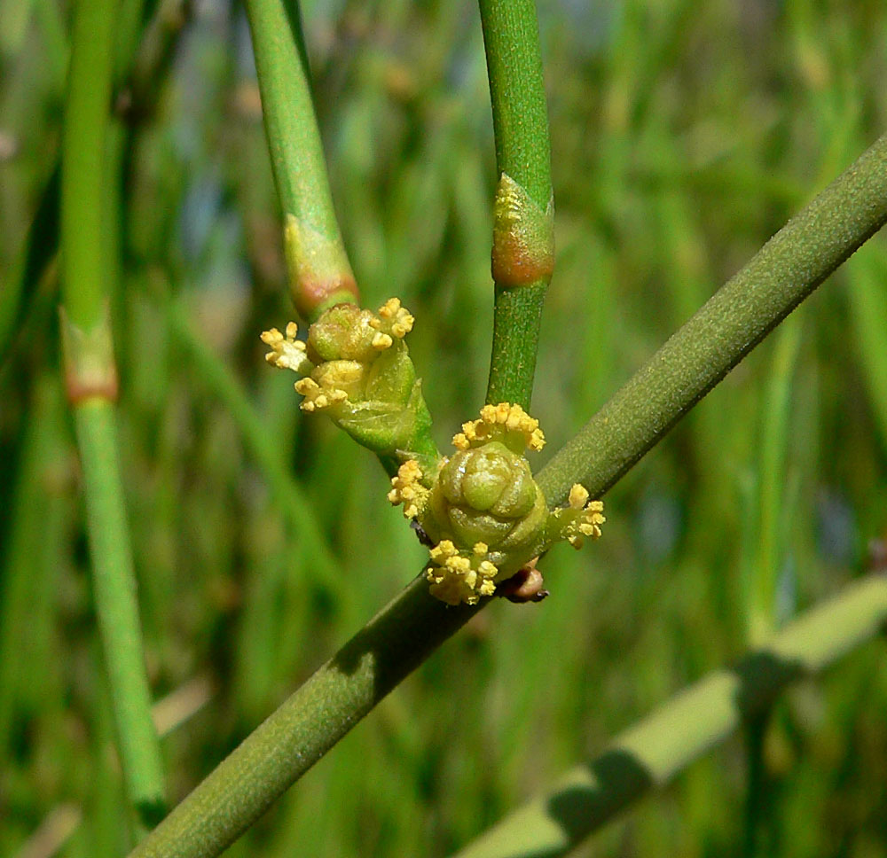 Ephedra viridis at the Springs Preserve garden, Las Vegas, Nevada